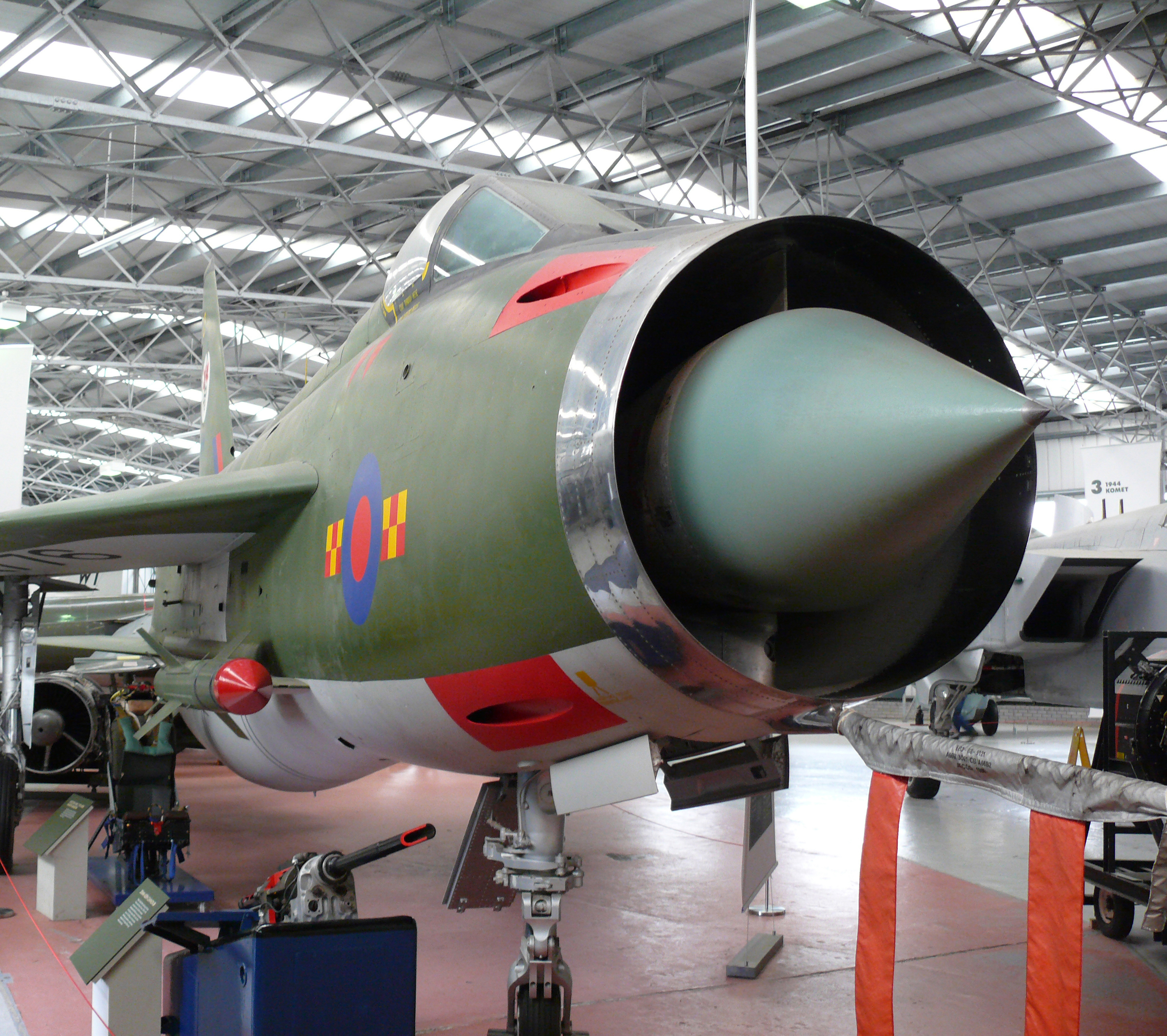 English Electric Lightning (XN776), a British supersonic jet fighter aircraft of the Cold War era, in the National Museum of Flight in East Fortune, East Lothian, Scotland. It is displayed in the colours of 92 Squadron, based at RAF Gutersloh, West Germany with whom it served until 1977. It was gifted to the Museum in 1982. Museum Number T.1982.115